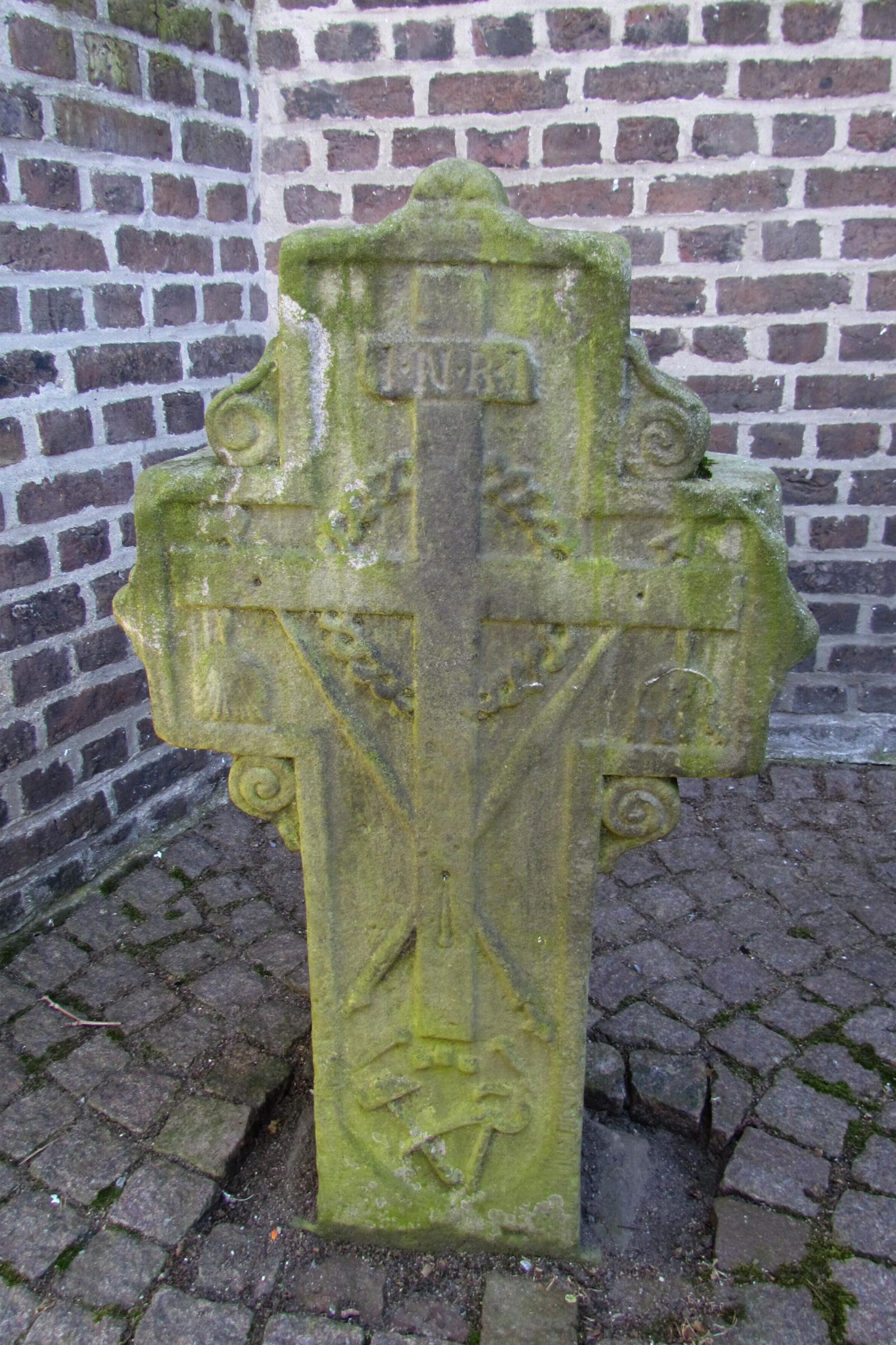 This is a photograph of an architectural monument.It is on the list of cultural monuments of Korschenbroich